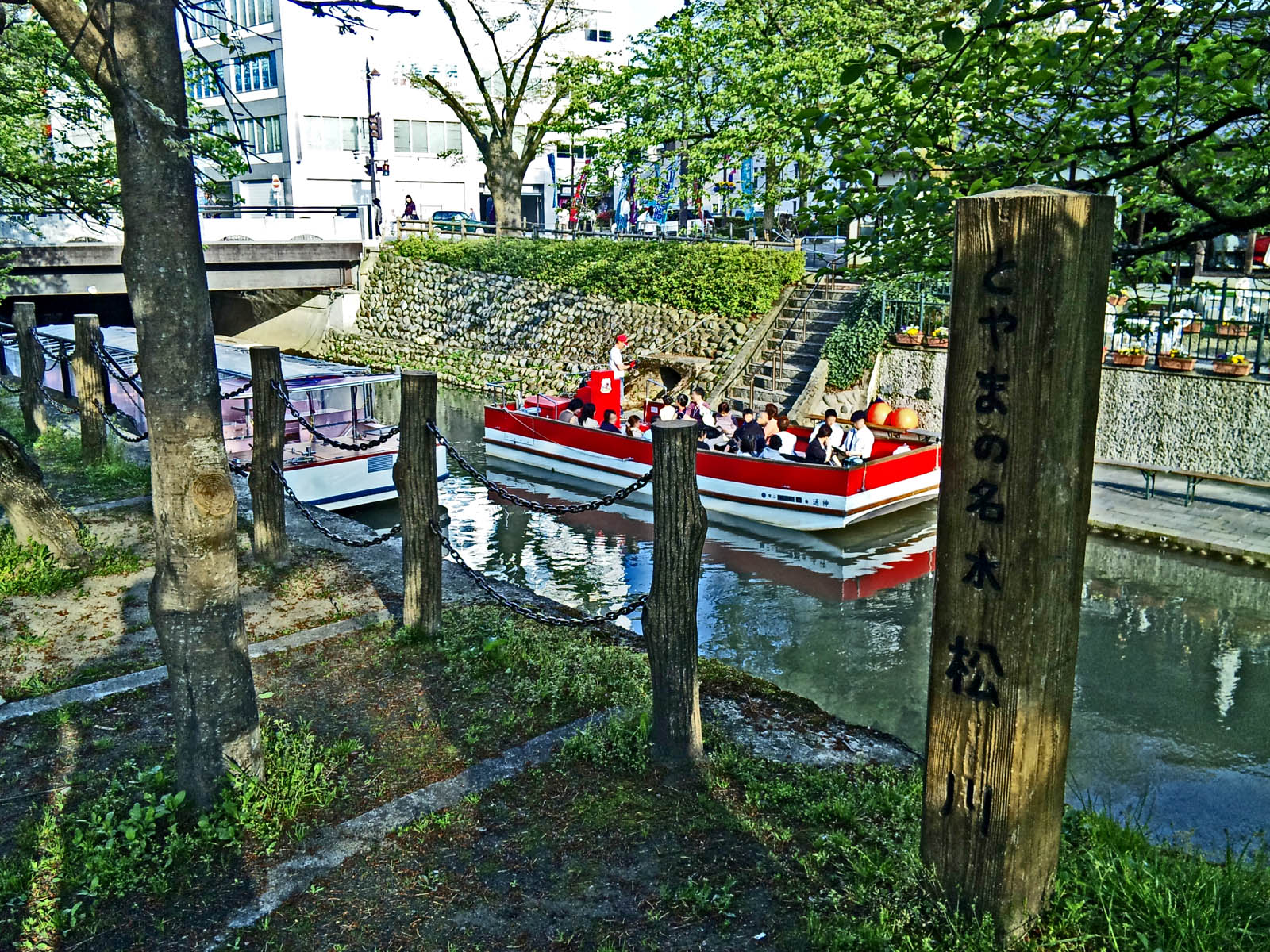 Matukawa Toyama City